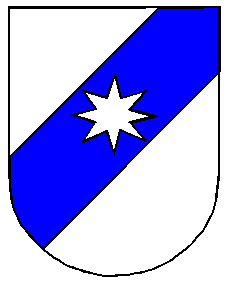 Coat of arms of Kiviõli